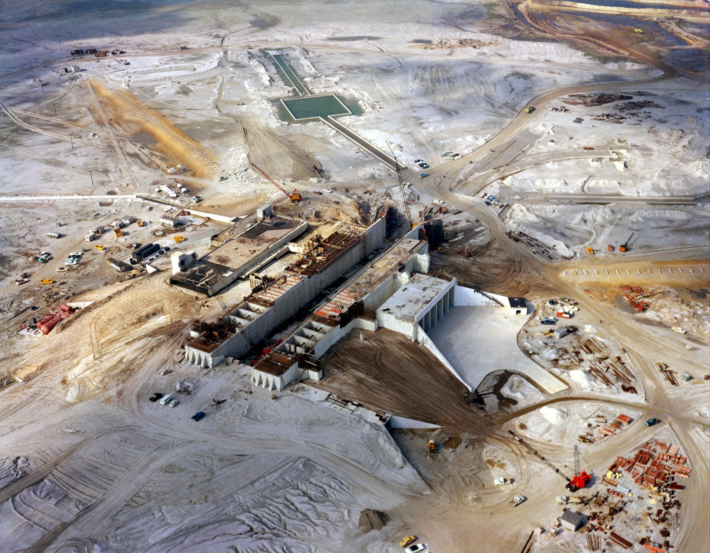 Aerial view of Kennedy Space Center Launch Pad 39A under construction in December 1964.